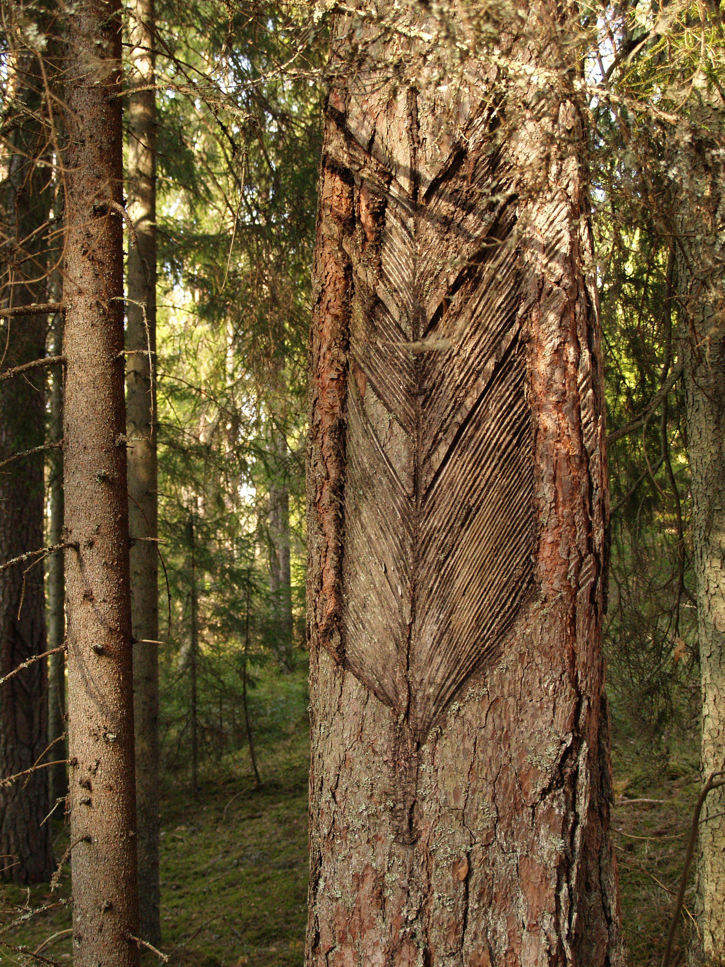 Gemmage on a Pinus sylvestris in Karula national park (Estonia). That (and the one you could find in the left corner of a picture) was probably made before the national park was founded (1993; since 1979 there was a land protection are).